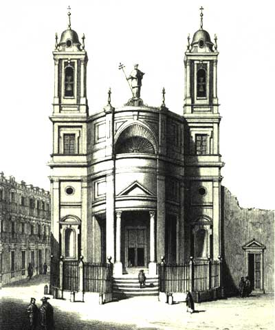 Façade of the monastery of San Norberto (Madrid).